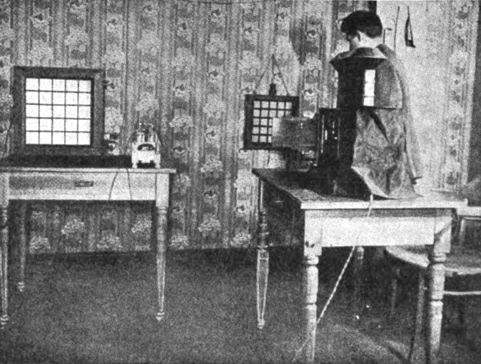 Photograph of Ernst Ruhmer demonstrating his experimental television system, which was capable of transmitting the images of simple shapes using a 25-element selenium cell receiver. The original caption read "Ruhmer's new apparatus for transmitting light by selenium cells."